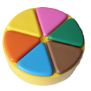 Image:Trivialpursuit Token.jpg with background removed and resized via the GIMP